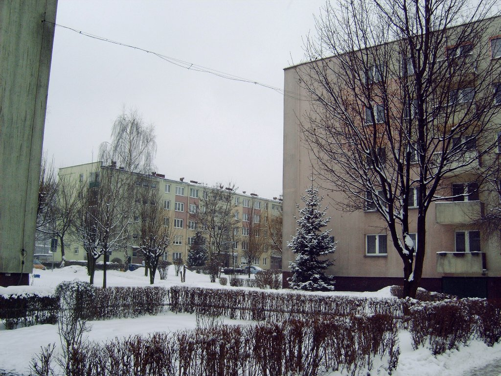 Obroki in Katowice (Poland)